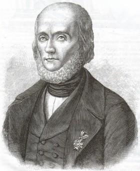 Portrait of French inventor Philippe de Girard (1775-1845) after Henry Scheffer (1798-1862)